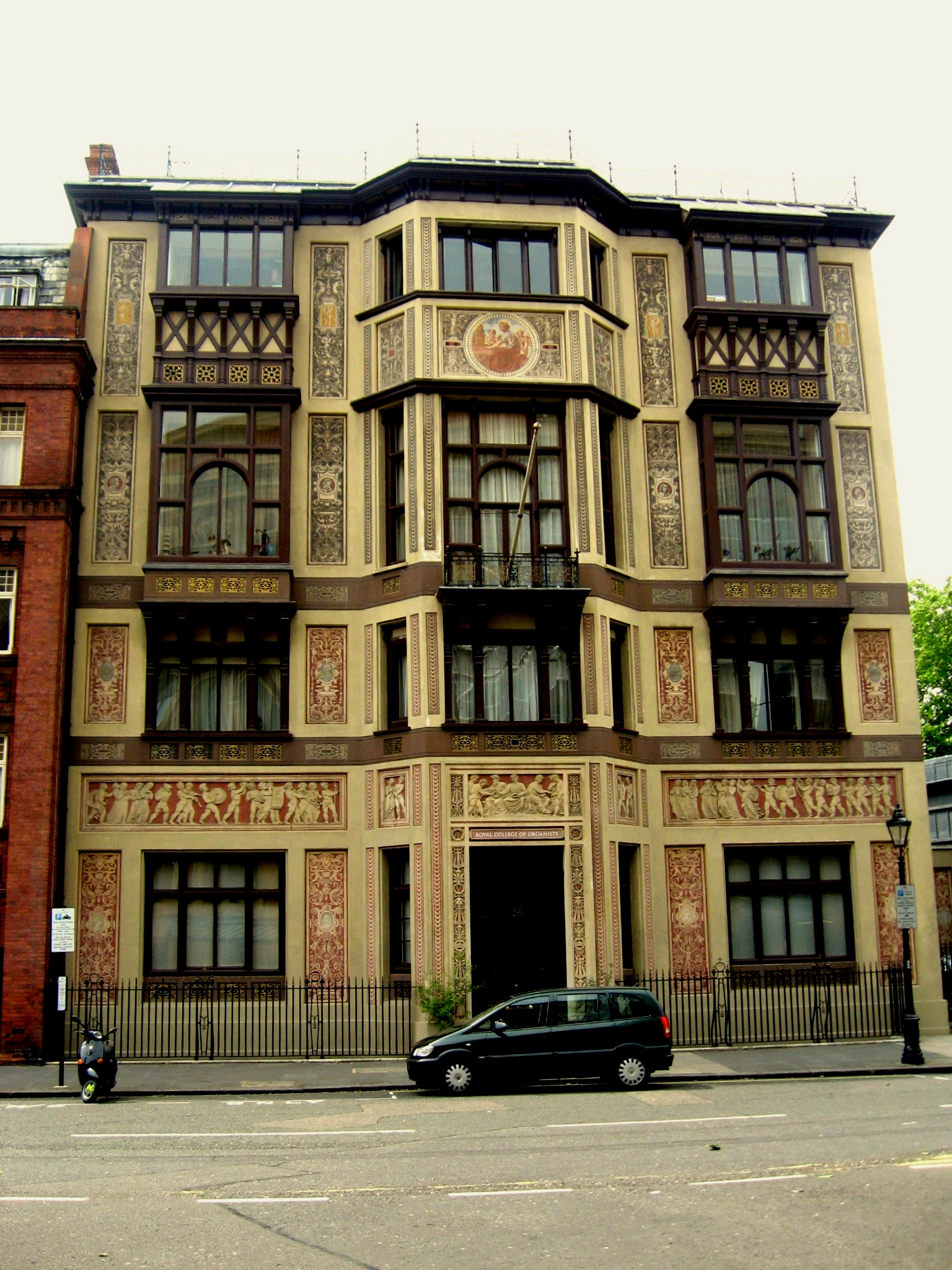 Royal College of Organists, former headquarters in Kensingon Gore, London